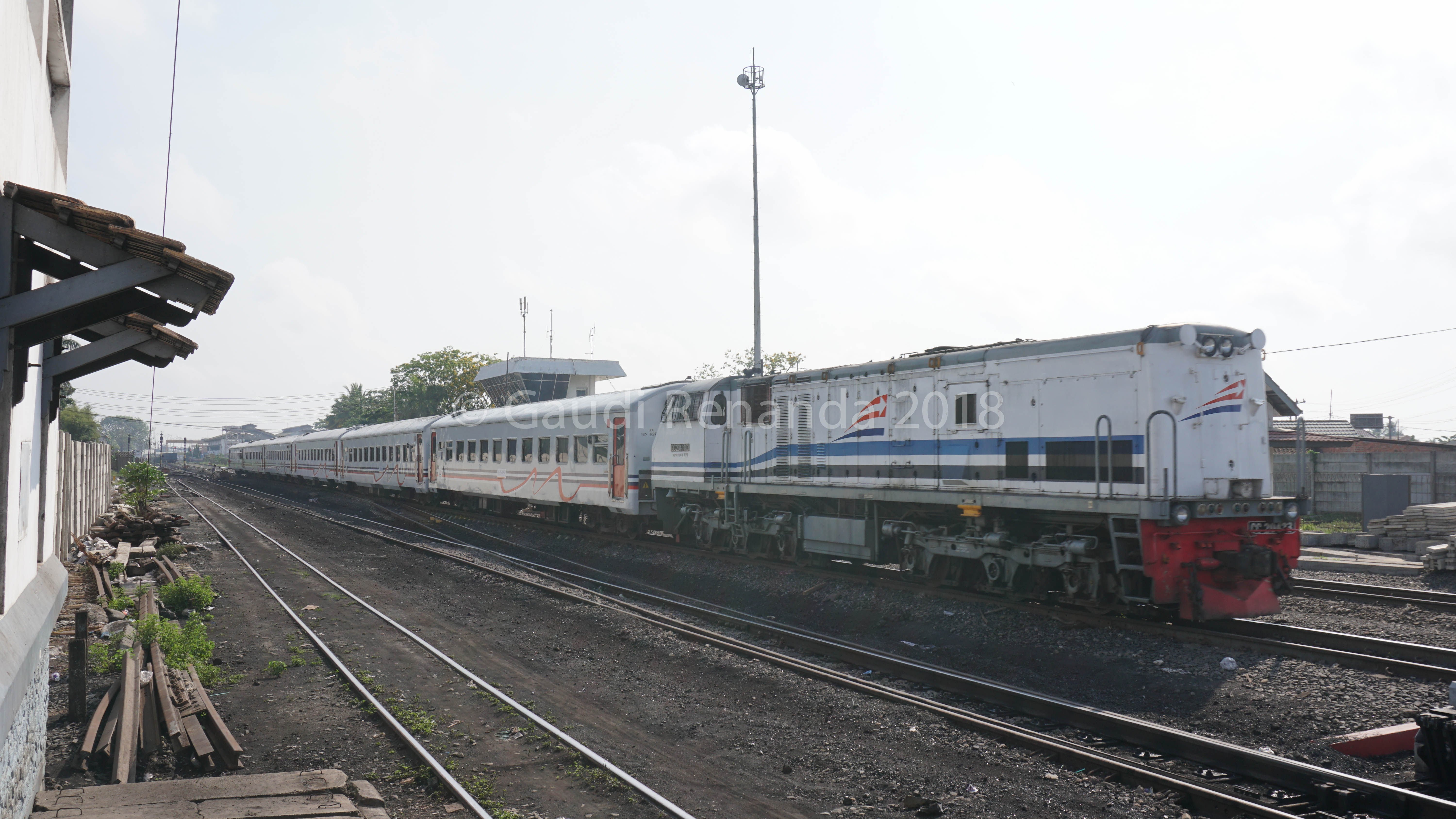 KA S7. Rajabasa Departing Kertapati Railway Station